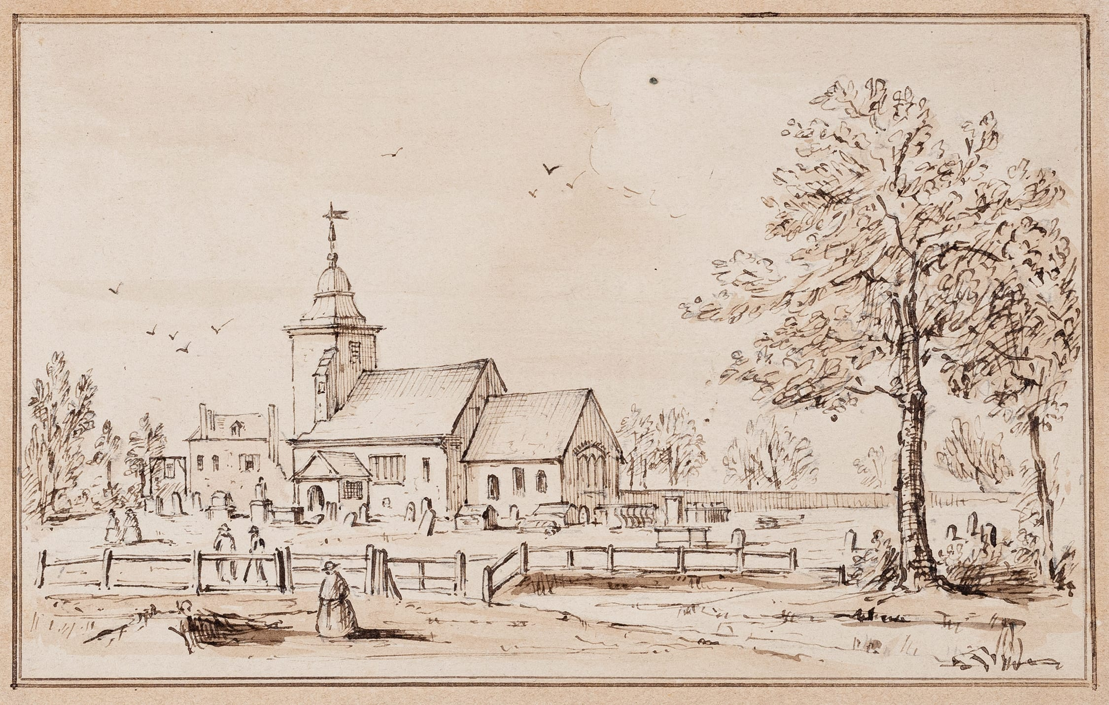 Offered for sale by Abbott and Holder in April 2020 when it was described as "LONDON (subject) Circa 1840) The South-East View of Old St Pancras Church. Pen, brush and ink. 4.5x7.25 inches."